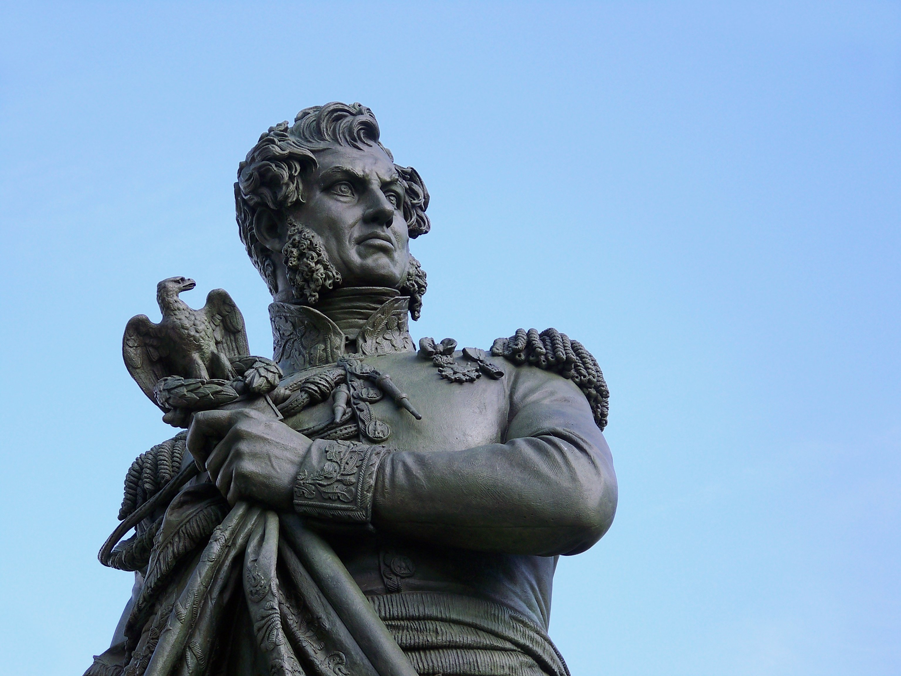 Statue of Pierre Cambronne, general of the Garde Impériale at Waterloo (sculpture by Jean Debay, 1848). He is famous for having replied to the British general Colville (according to the legend): La Garde meurt et ne se rend pas ! (the Garde dies and does not surrender). Actually, he didn't die and did surrender, but the sentence is still engraved on the pedestal of its statue in Nantes, its natal city. When Colville insisted, Cambronne is known to have answered Merde !, the interjection being then known as the Word of Cambronne. He always denied having said any of that.